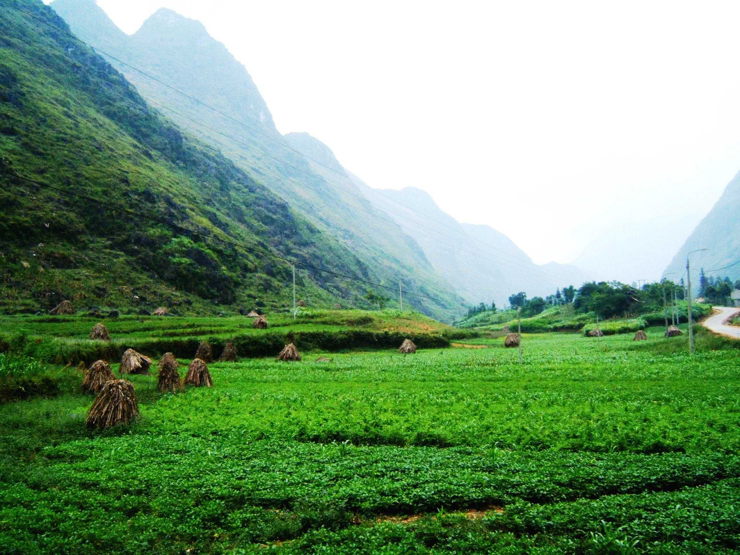 Ancient river valley in PaVi commune HaGiang province, Vietnam